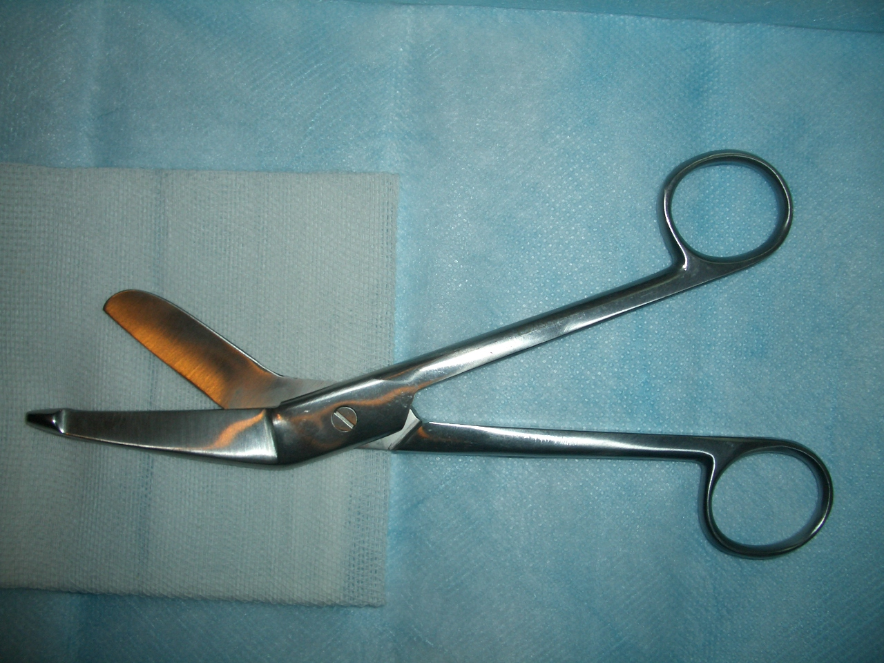 Bandage scissors are angled tip scissors, with a blunt tip on the bottom blade, which helps in cutting bandages without gouging the skin.